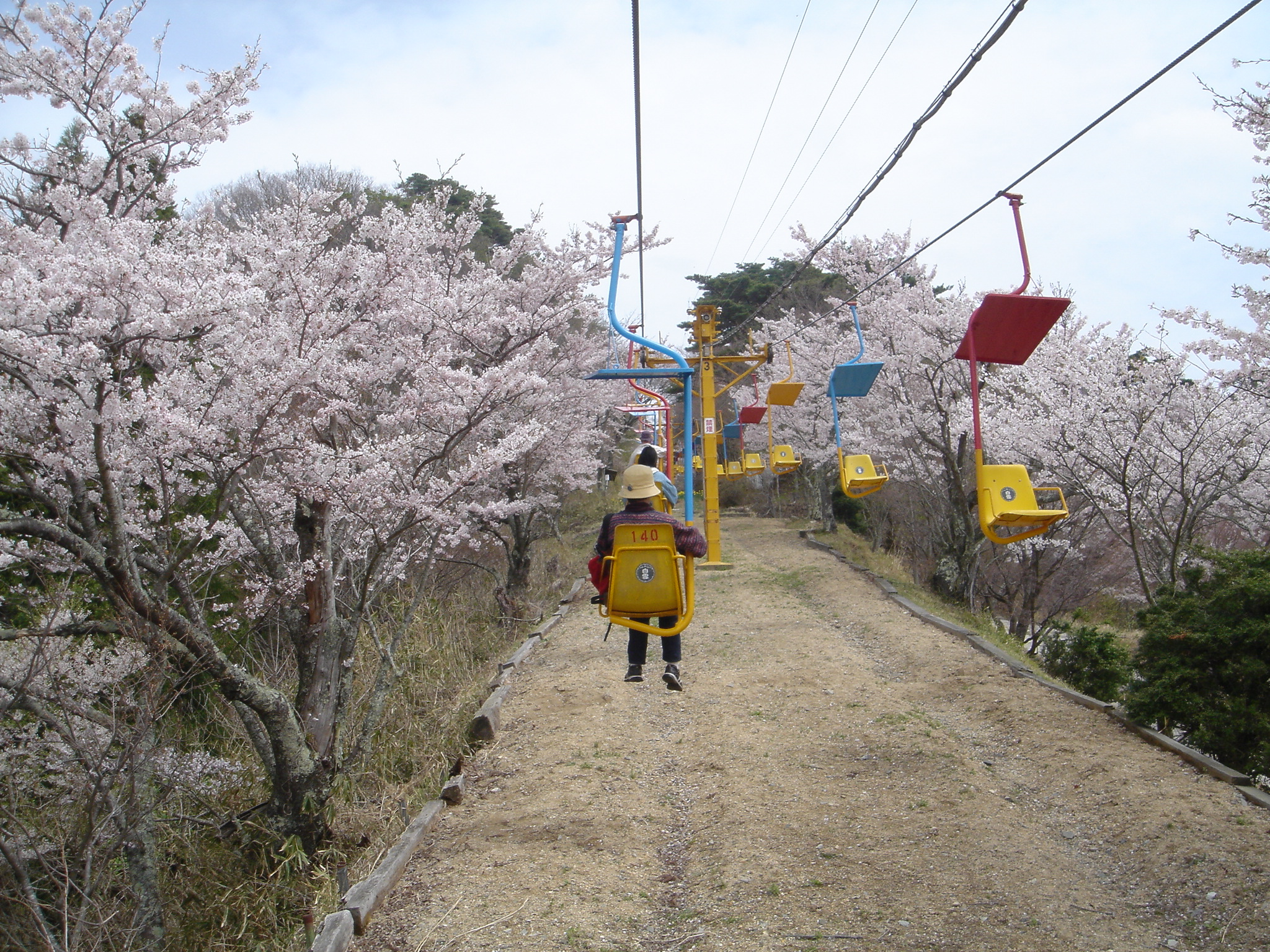 Myoken Lift.